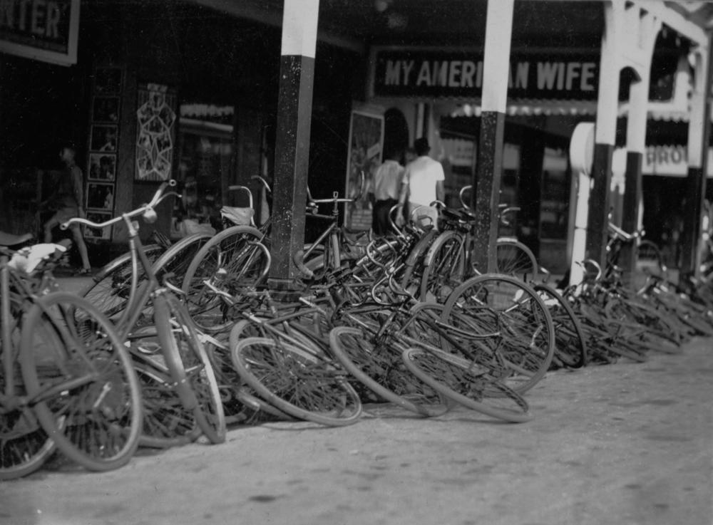 Bicycles piled up outside a picture theatre in Cairns, ca. 1922. In the days when everyone rode around on bicycles.